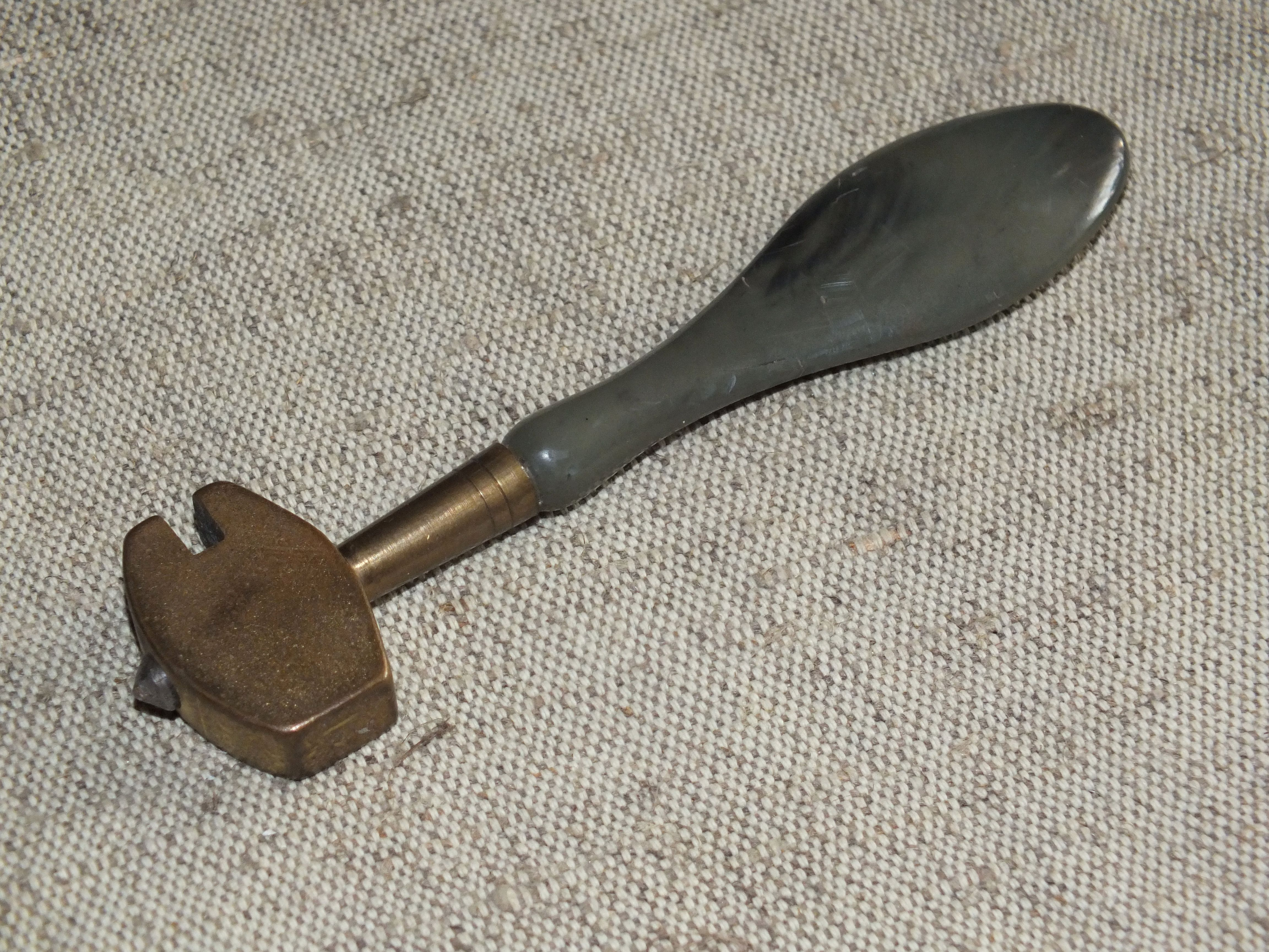 Glass cutters